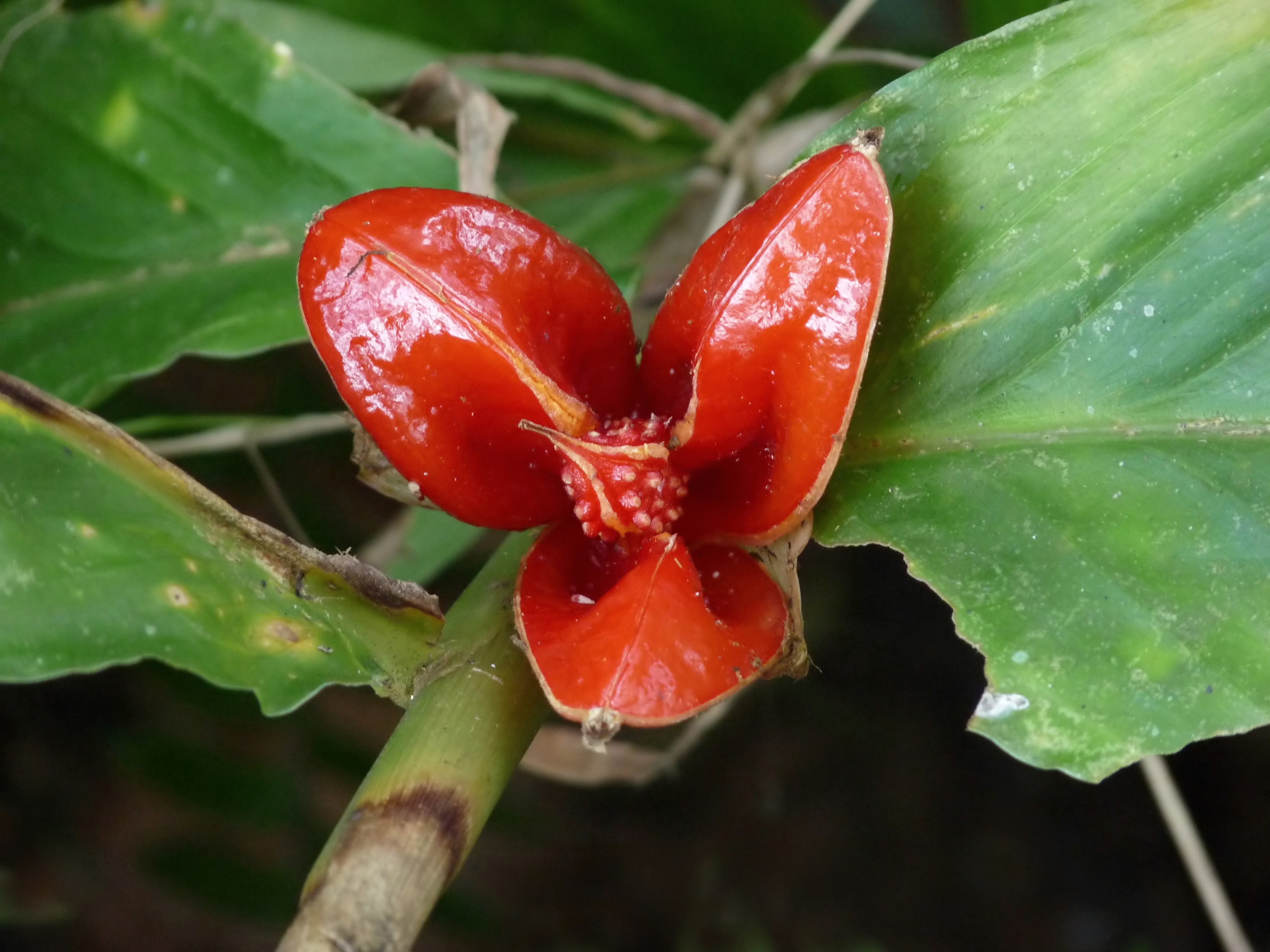 The genus Zingiber contains the true gingers, a set of plants with medicinal and culinary value in many parts of the world. The most well-known is Z. officinale, garden ginger. Zingiber cernuum, Curved-Stem Ginger is a large perennial herb, 1-2 m tall, with curved stem. Leaves are 15-30 cm, narrow-elliptic, long-pointed. Flowers are borne in spikes 5-10 cm long, directly from the rootstock, rising just above the ground. Bracts are 2-3 cm long, greenish-yellow. Sepal cup is shortly 3-lobed. Flowers are creamish, variegated with red, with the lib broad and 3-lobed. Stamen is one with short filament. Style is threadlike. Flowers open at night. Capsules are 1 cm long, smooth with red, channeled seeds. Curved-Stem Ginger is found in the evergreen forests of Western Ghats.